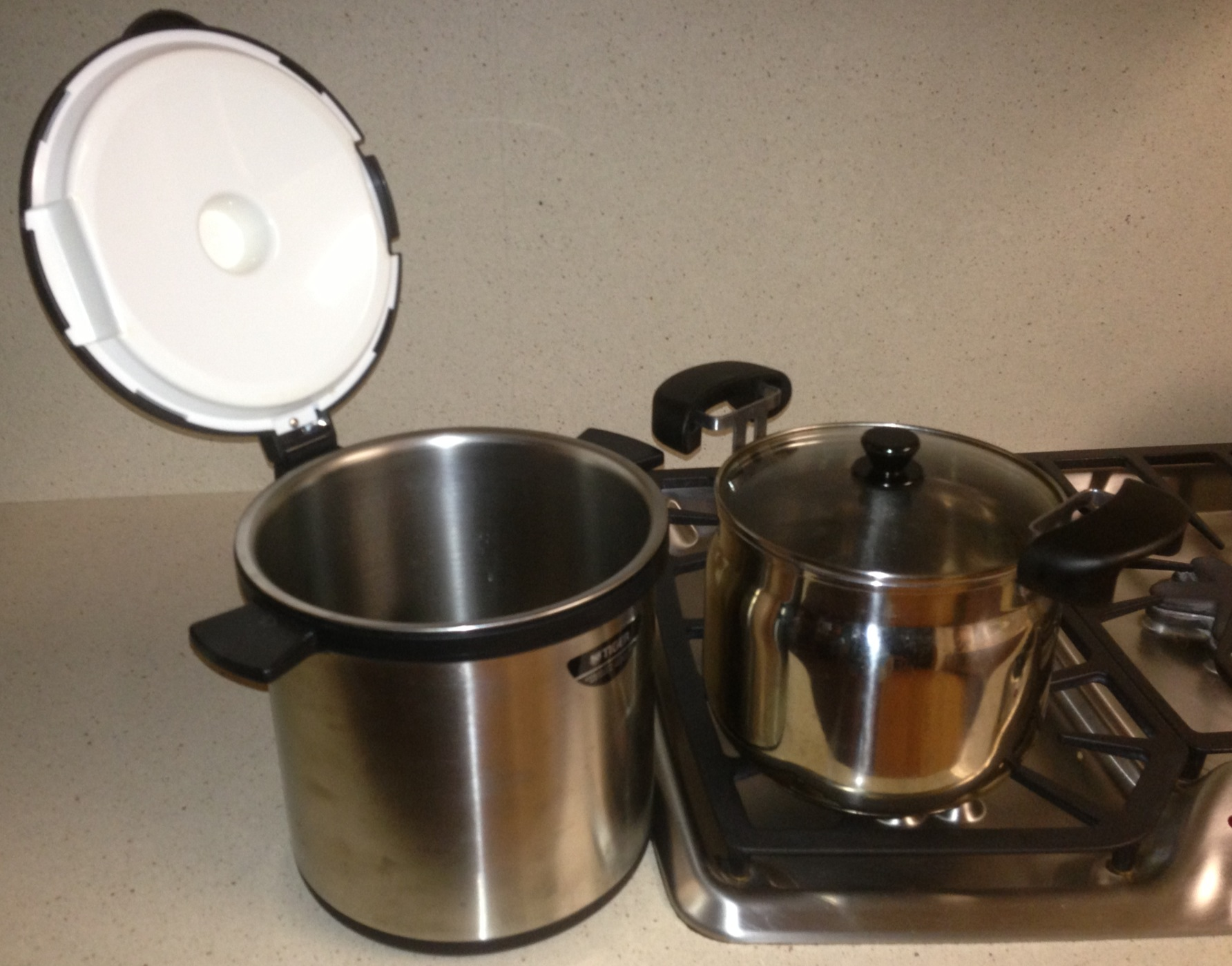 The picture shows a vacuum flask cooker with the pot taken out.